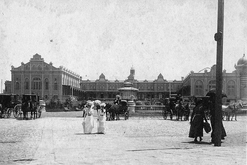 Bristol Hotel of Mar del Plata, Buenos Aires Province. The hotel was opened in 1888 and closed in 1944.